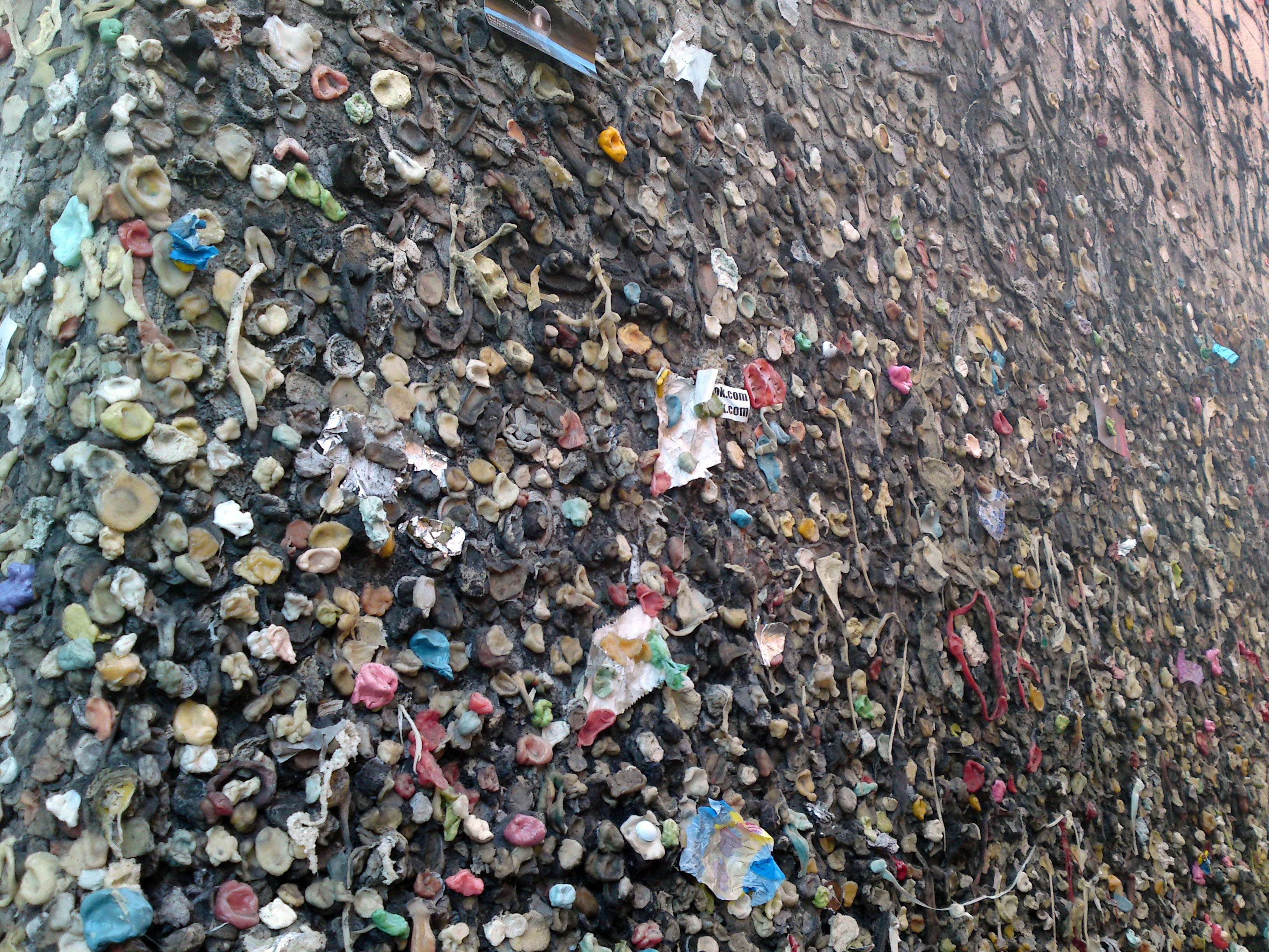 Bubblegum alley in San Luis Obispo, California USA